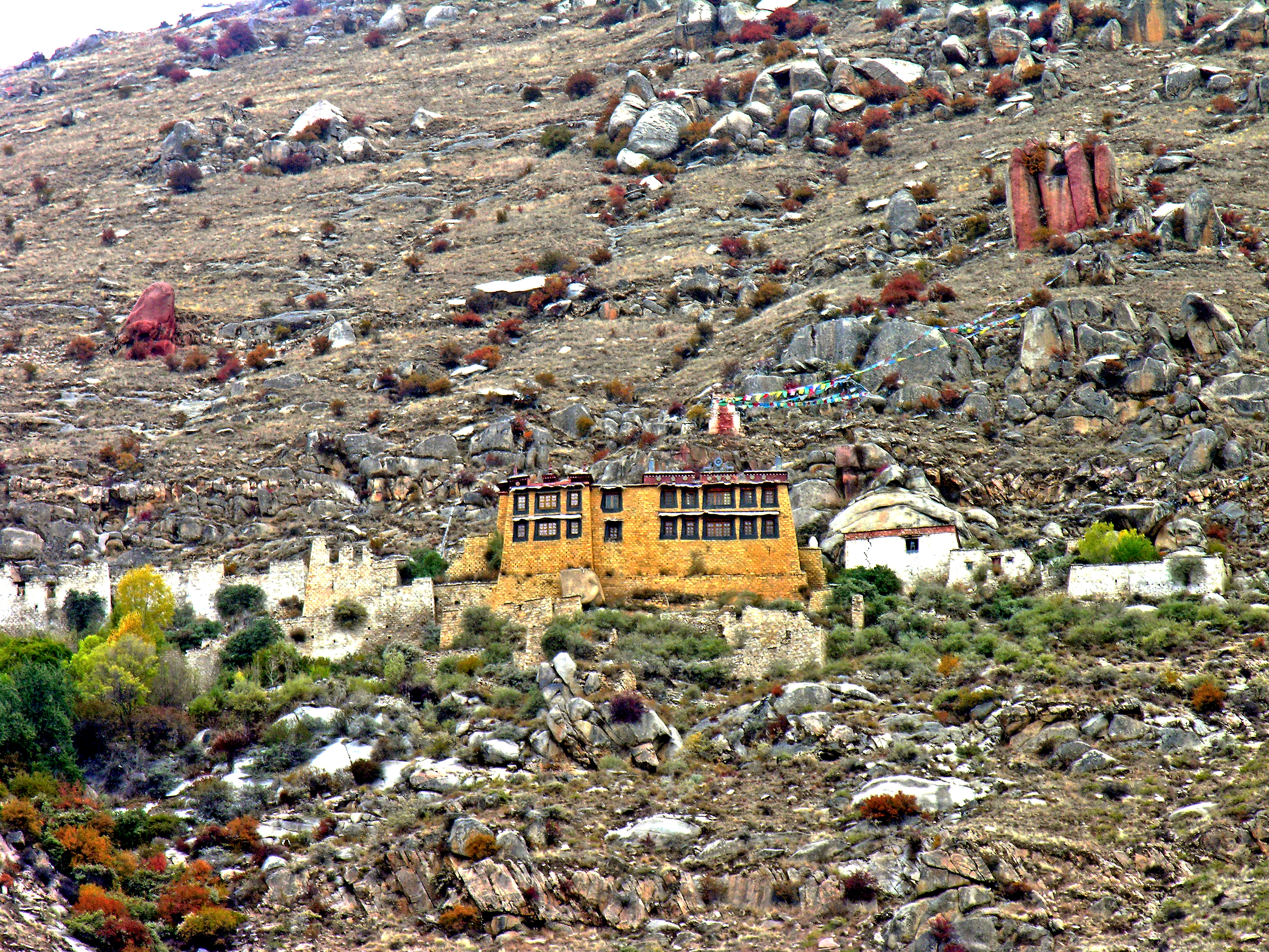 On the hill behind the Sera Monastery were buildings were monks sometimes go to try and find enlightenment. My guide informed me that a monk could stay there for up to 3 years with no contact with another person. Family members would take food to the monk and leave it there for him but not have contact with him. Lhasa, Tibet